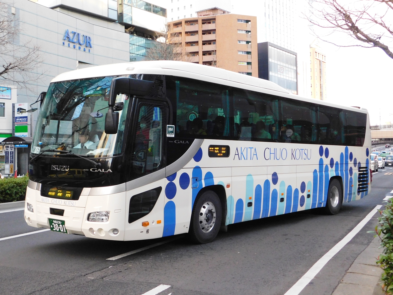 Akita Chuo Kotsu Isuzu Gala (2TG-RU1ASDJ)on highwaybus "Senshu-go"(Akita-Sendai)